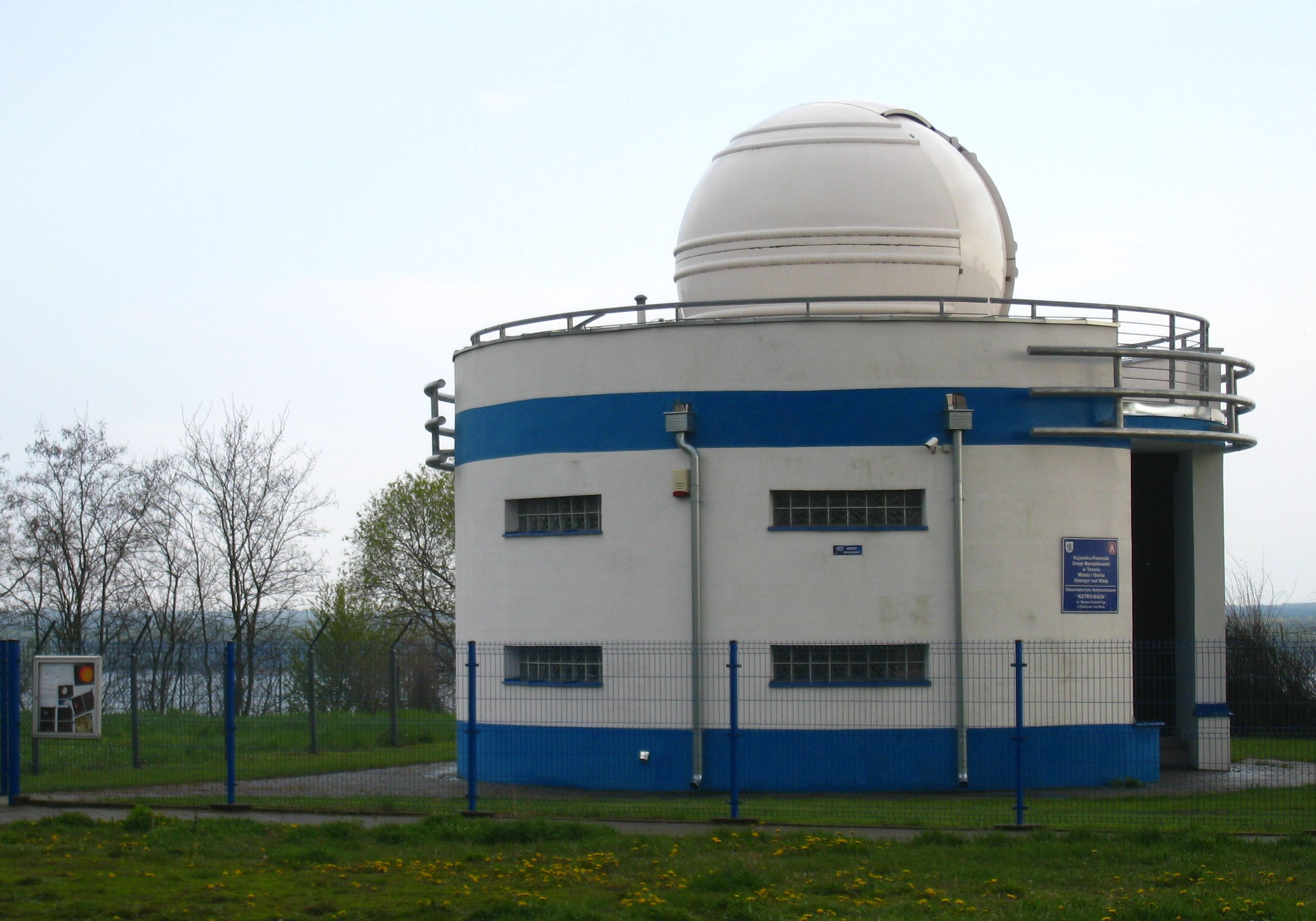 Small observatory in Dobrzyn nad Wisla